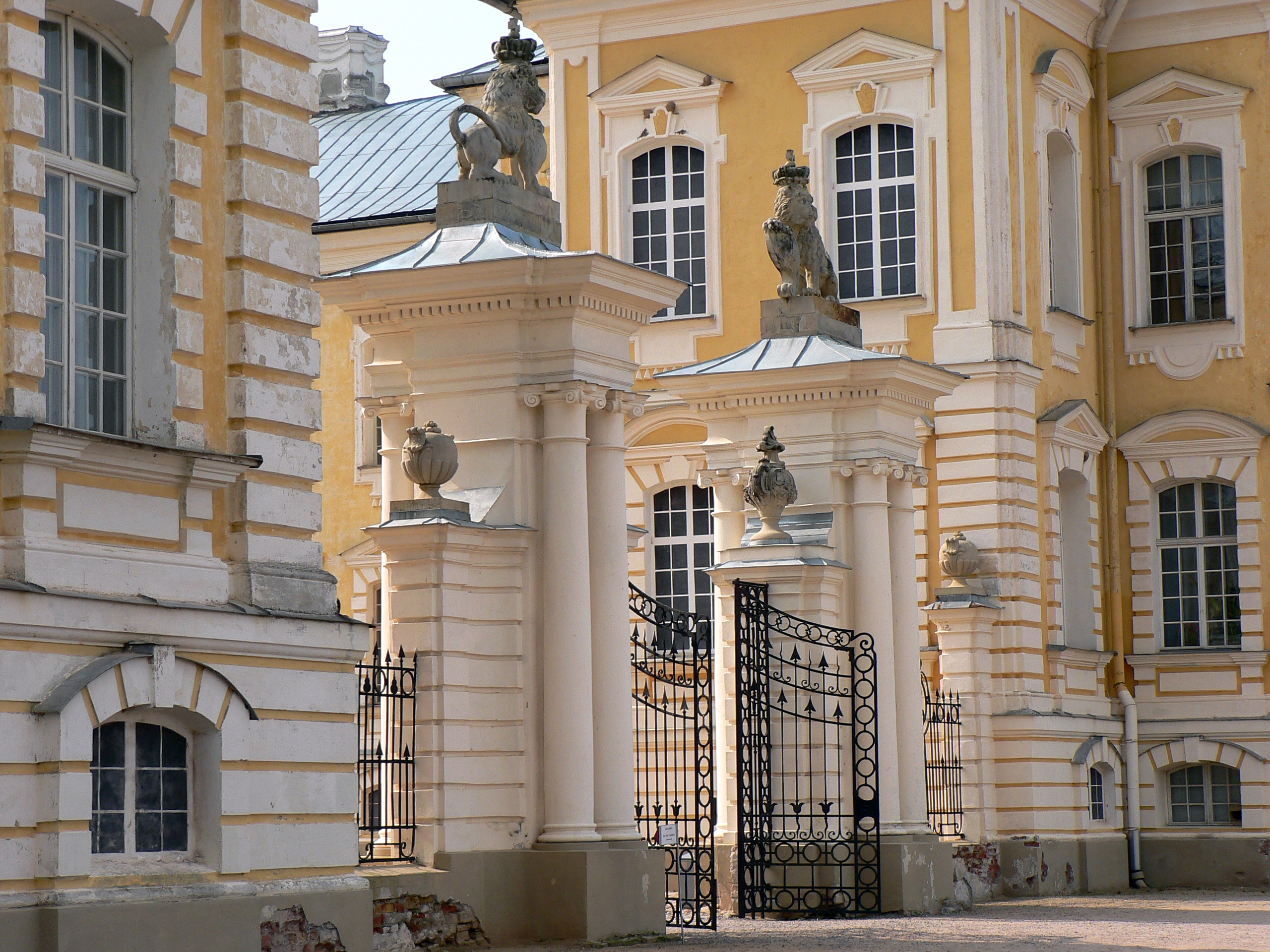 Rundāle palace, Latvia.